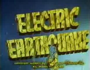 Screenshot of the animated short Electric Earthquake.